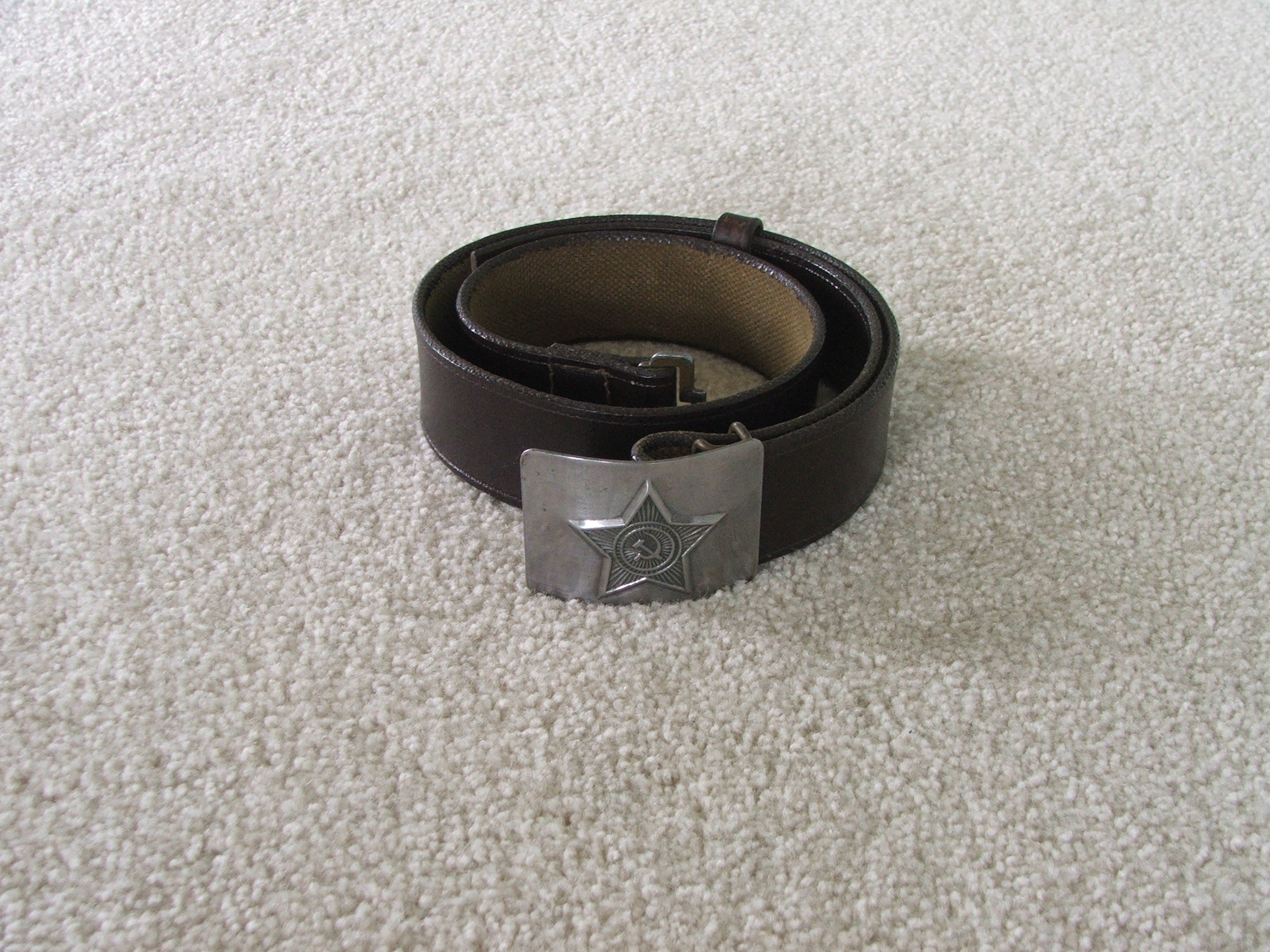 Belt of soldier of the Soviet Army.